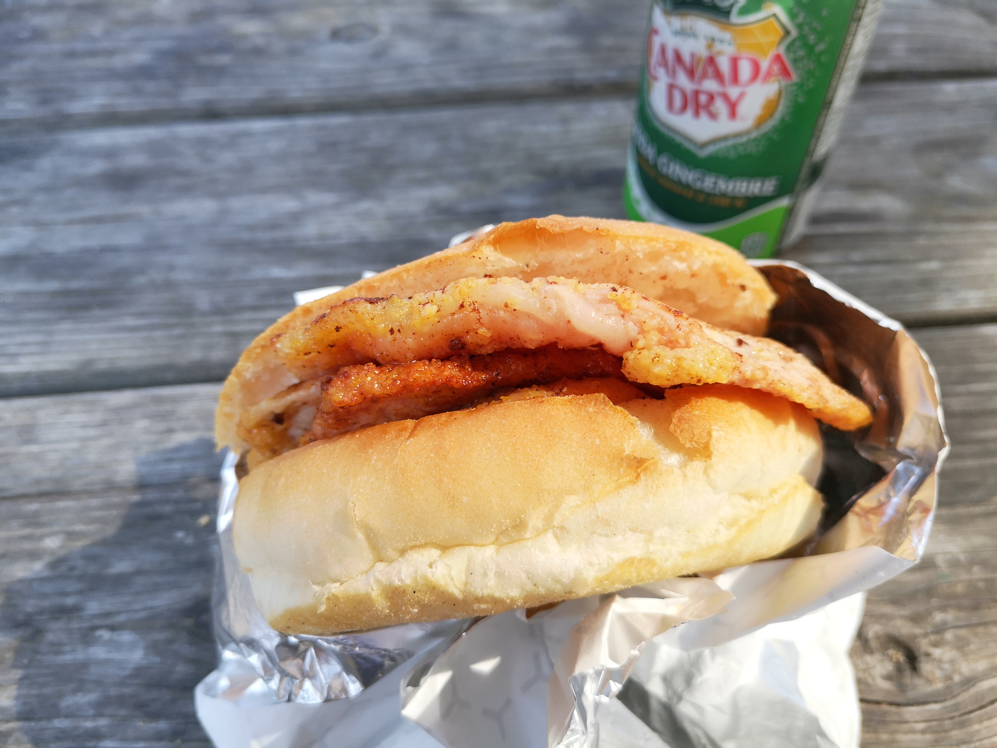 Side view of a peameal bacon sandwich from Carousel Bakery in Toronto